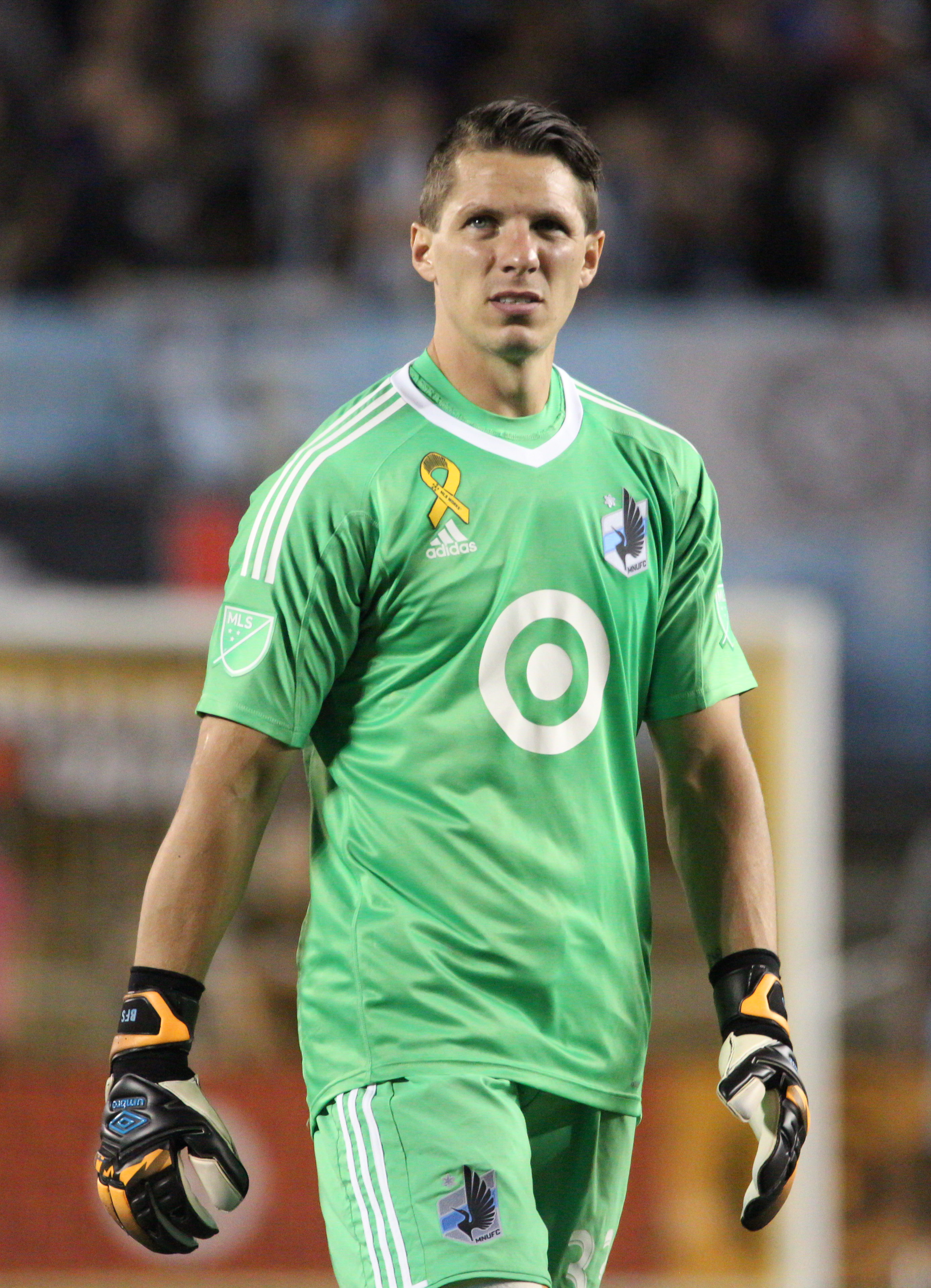 Bobby Shuttleworth MNUFC - MLS - Goalie - Soccer